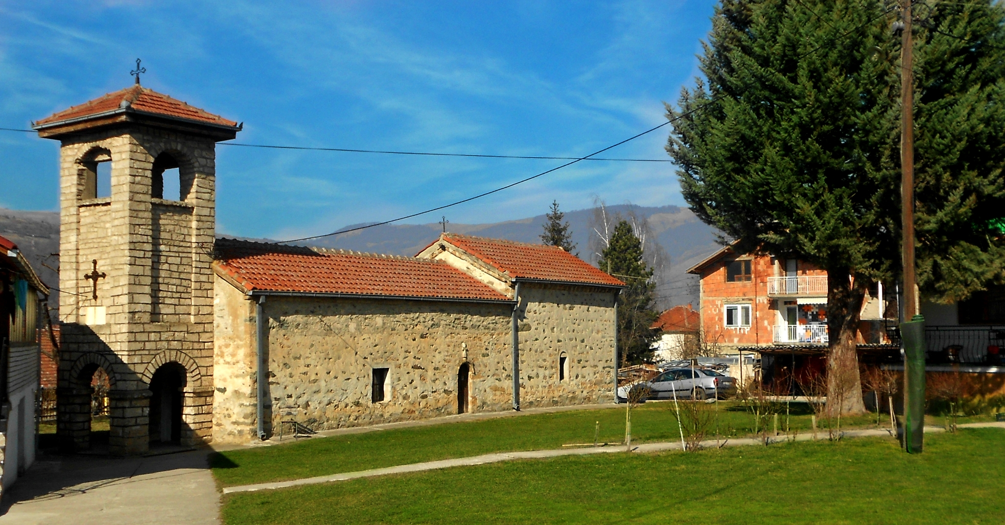 A picture taken in front of the Church